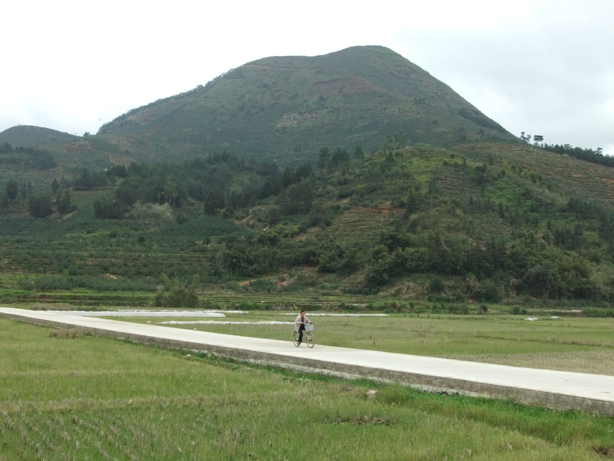 On Fujian Provincial Highway 309 (S309) north of Luxi Town